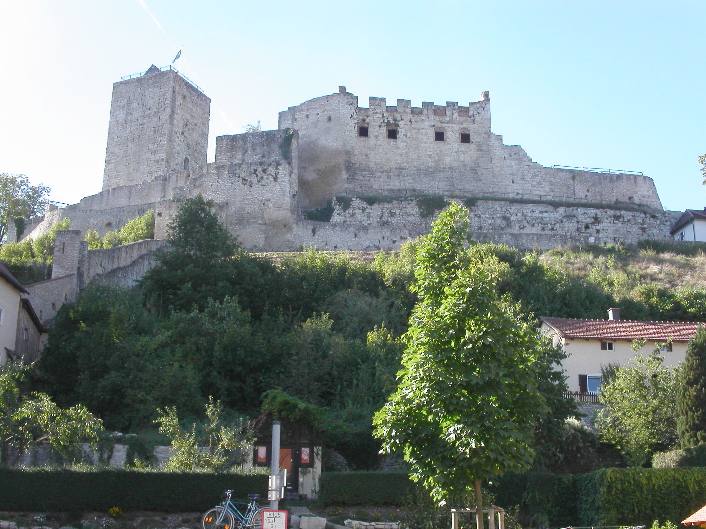 Castle of Pappenheim